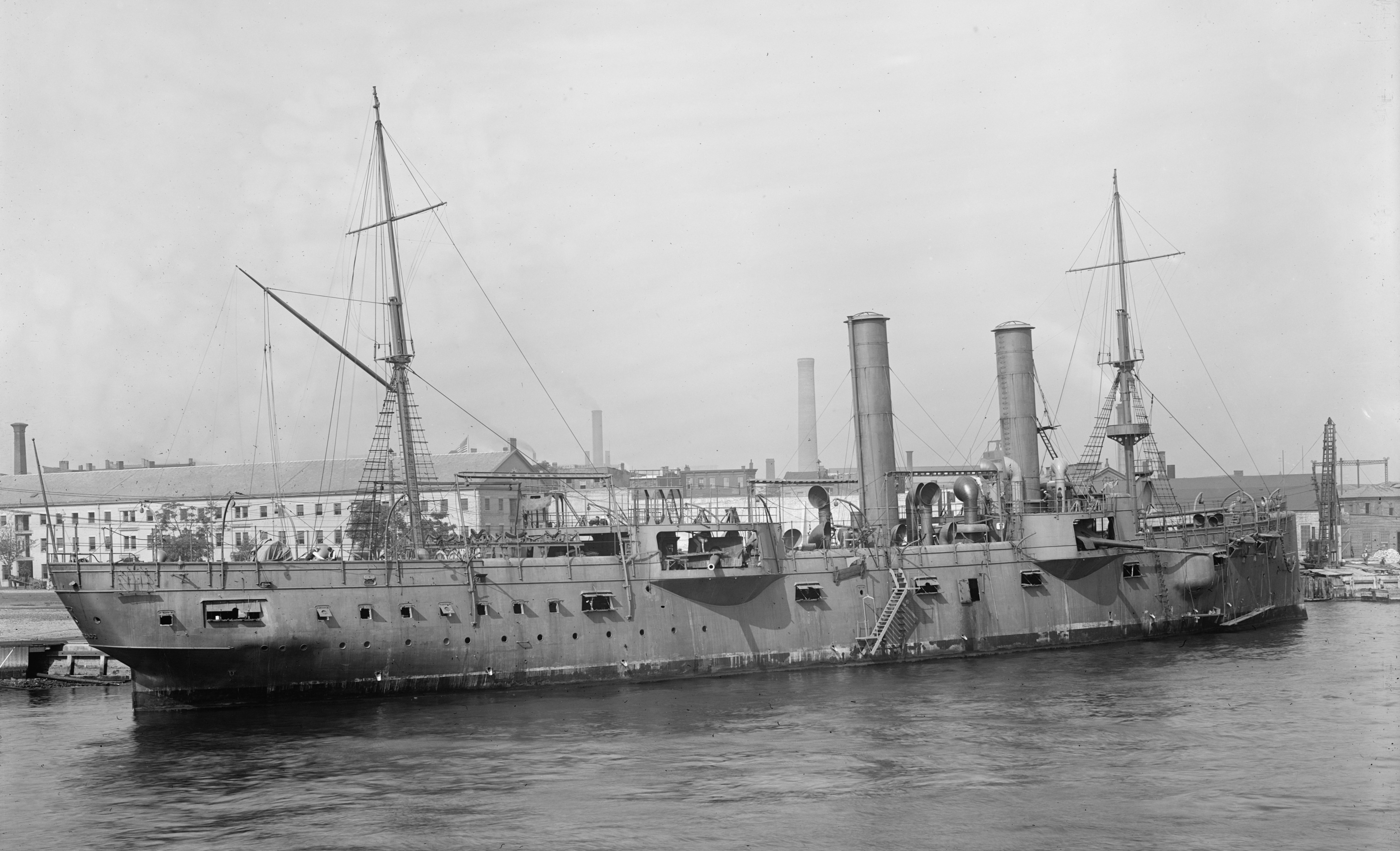 Cruiser USS Chicago at Brooklyn Navy Yard